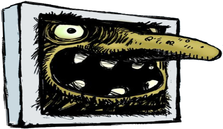 Internet troll, using a part of Image:Internet Troll velu ill artlibre jnl.jpg